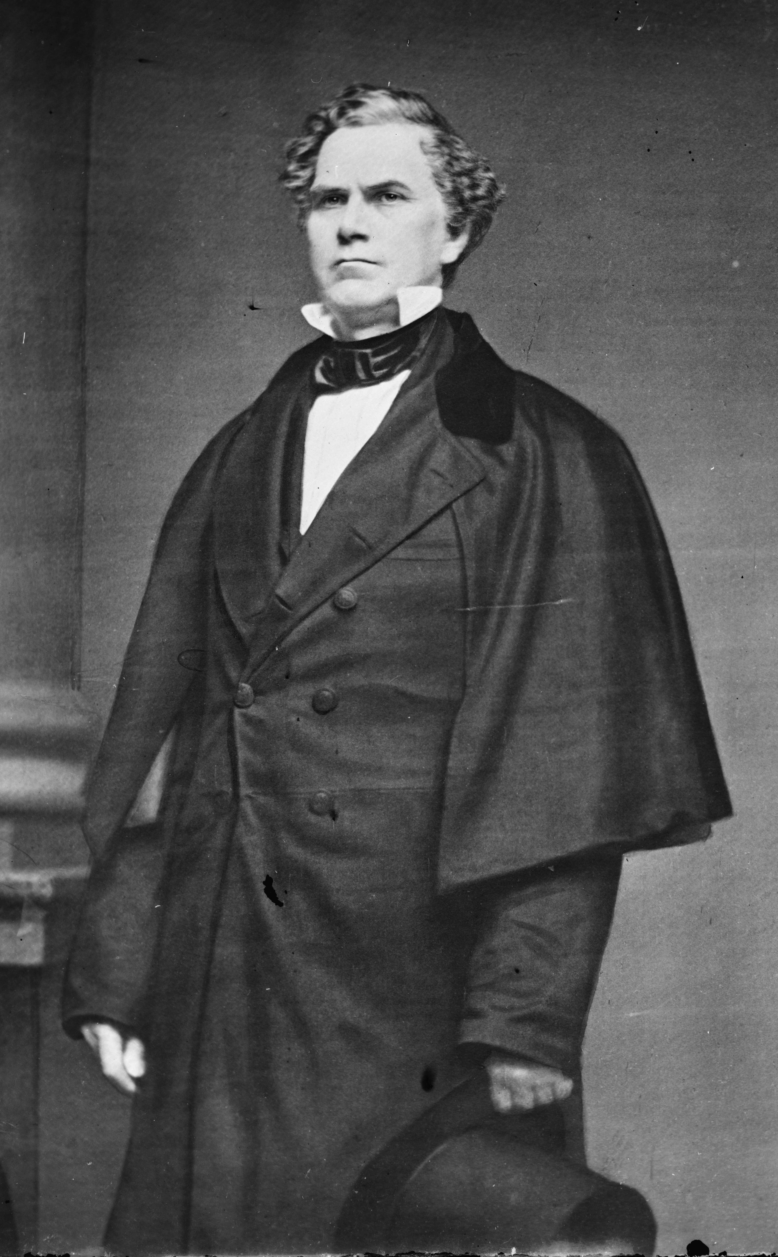 Francis Burton Craige. Library of Congress description: "Hon. F. B. Craige of N. C."